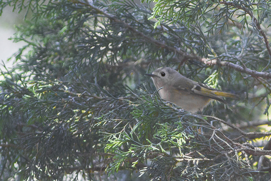 The specie Goldcrest has been photographed from Vinayak, Uttarakhand, India on 05.02.2015. during the birding tour of GoingWild.